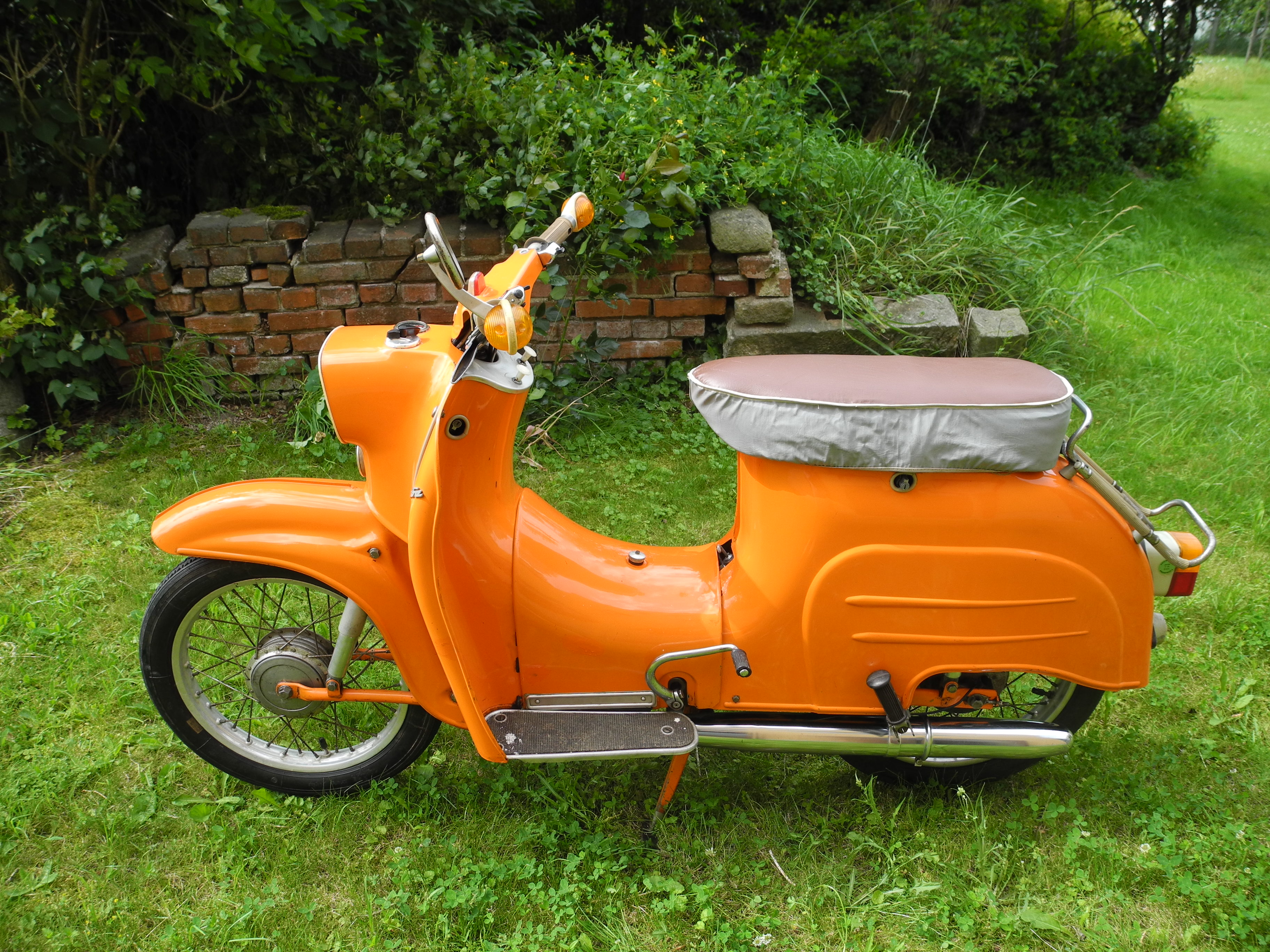 Simson Scooter Schwalbe built 1964, nothing changed